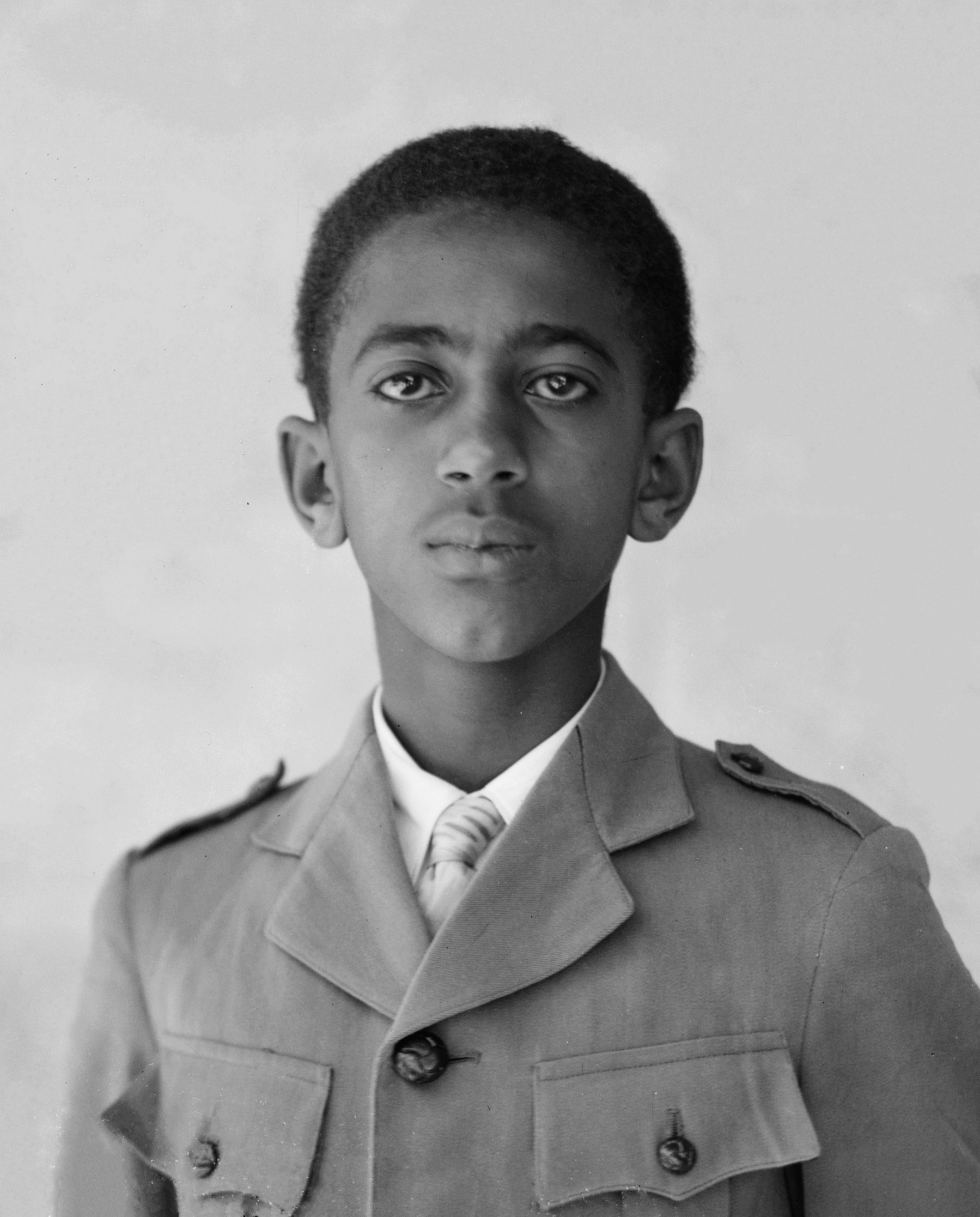 Son of H.S. [i.e., Haile Selassie] in mili. [i.e., military] uniform